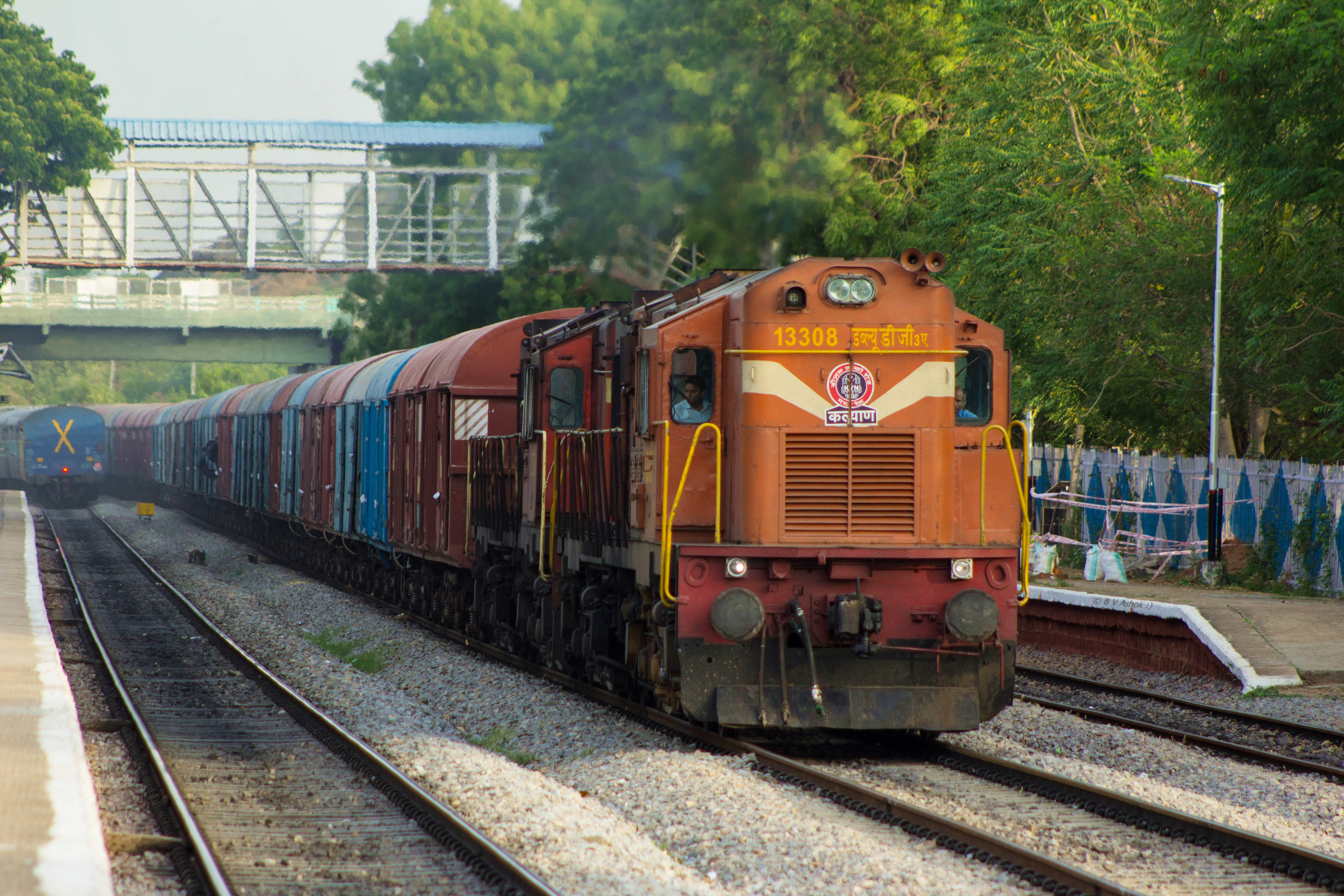 KYN WDG-3A "Shakti" twins led by 13308 cruising through Cavalry Barracks with a BCNHL rake...